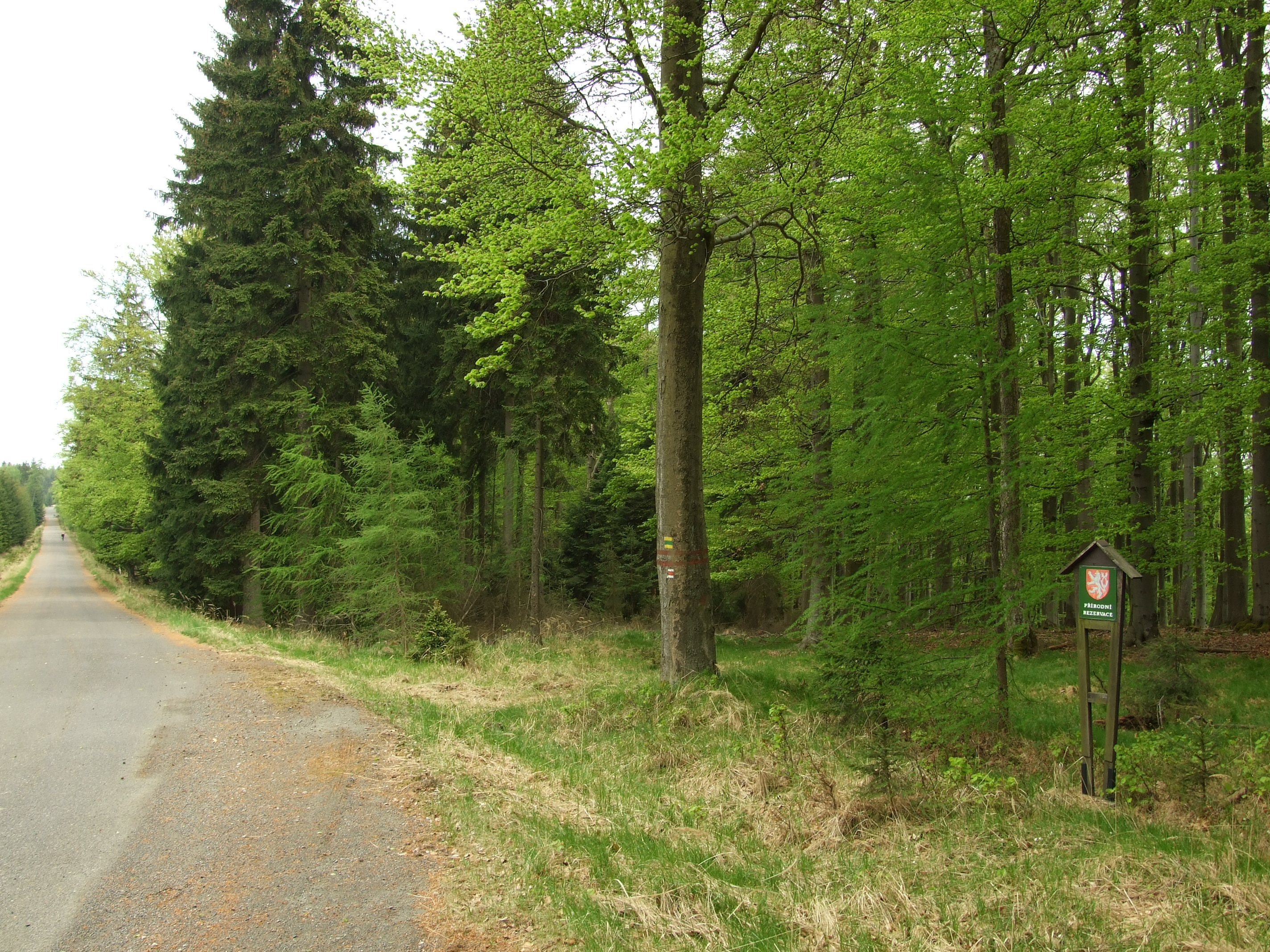 Nature and people in central part of Brdy between Mníšek pod Brdy and Dobříš in Central Bohemian region, CZhelp